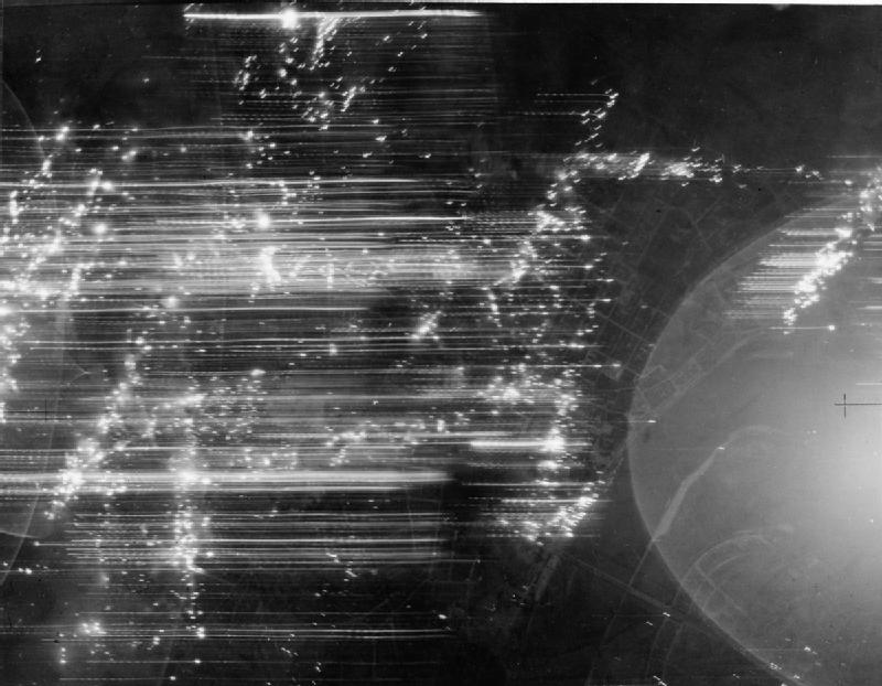 Royal Air Force Bomber Command, 1942-1945. Vertical aerial photograph taken during a raid on Dusseldorf, Germany, on the night of 11/12 June 1943. Sticks of incendiary bombs lie across Karlstadt in the early stages of the attack. The River Rhine and the Oberkasseler brucke can be seen, illuminated by the detonation of a photoflash bomb (lower right).